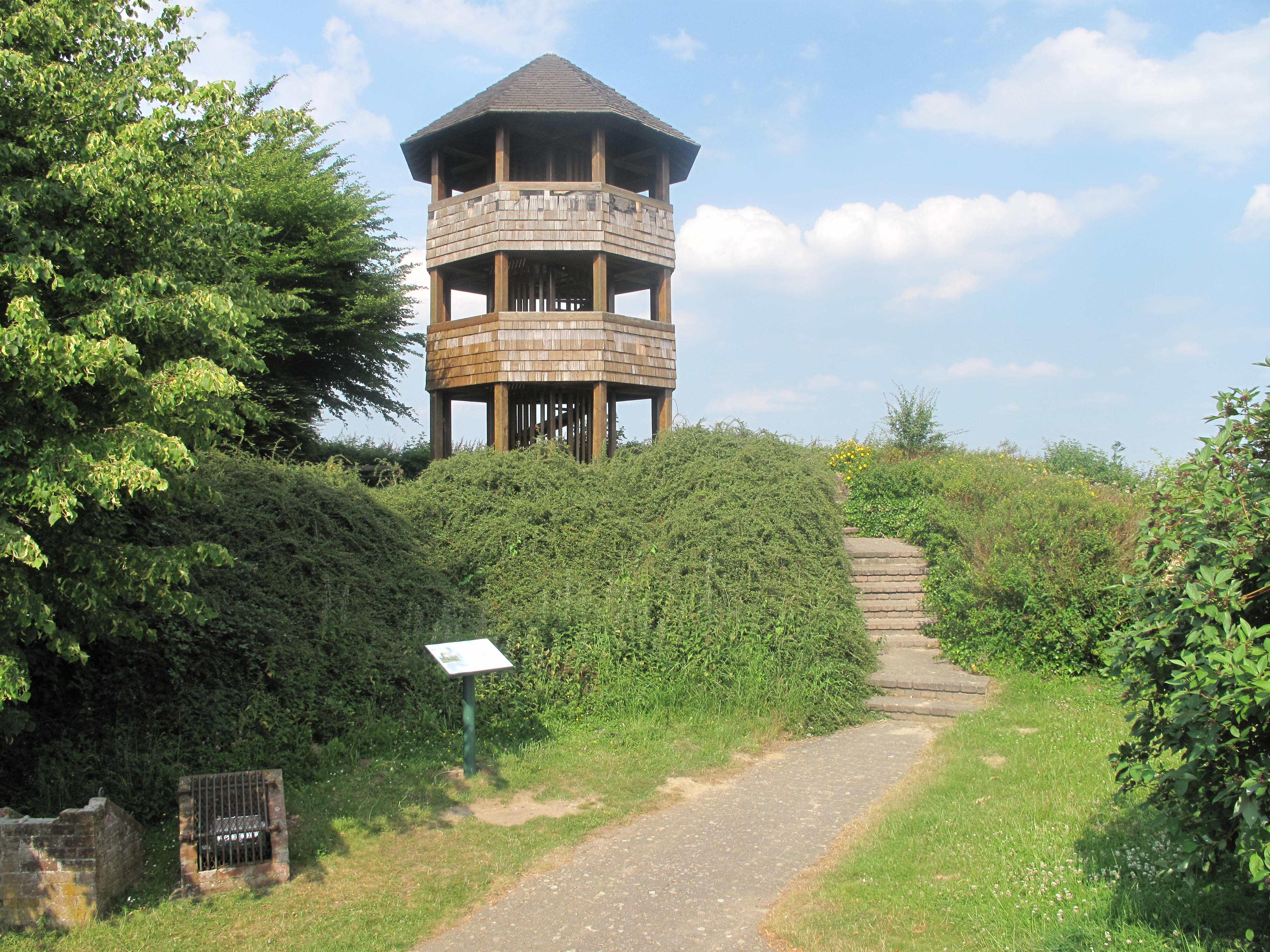 Memorial of the battle of Crécy (1346), France. It was built in the place of a windmill where the king of England waited for the attack of the king of France